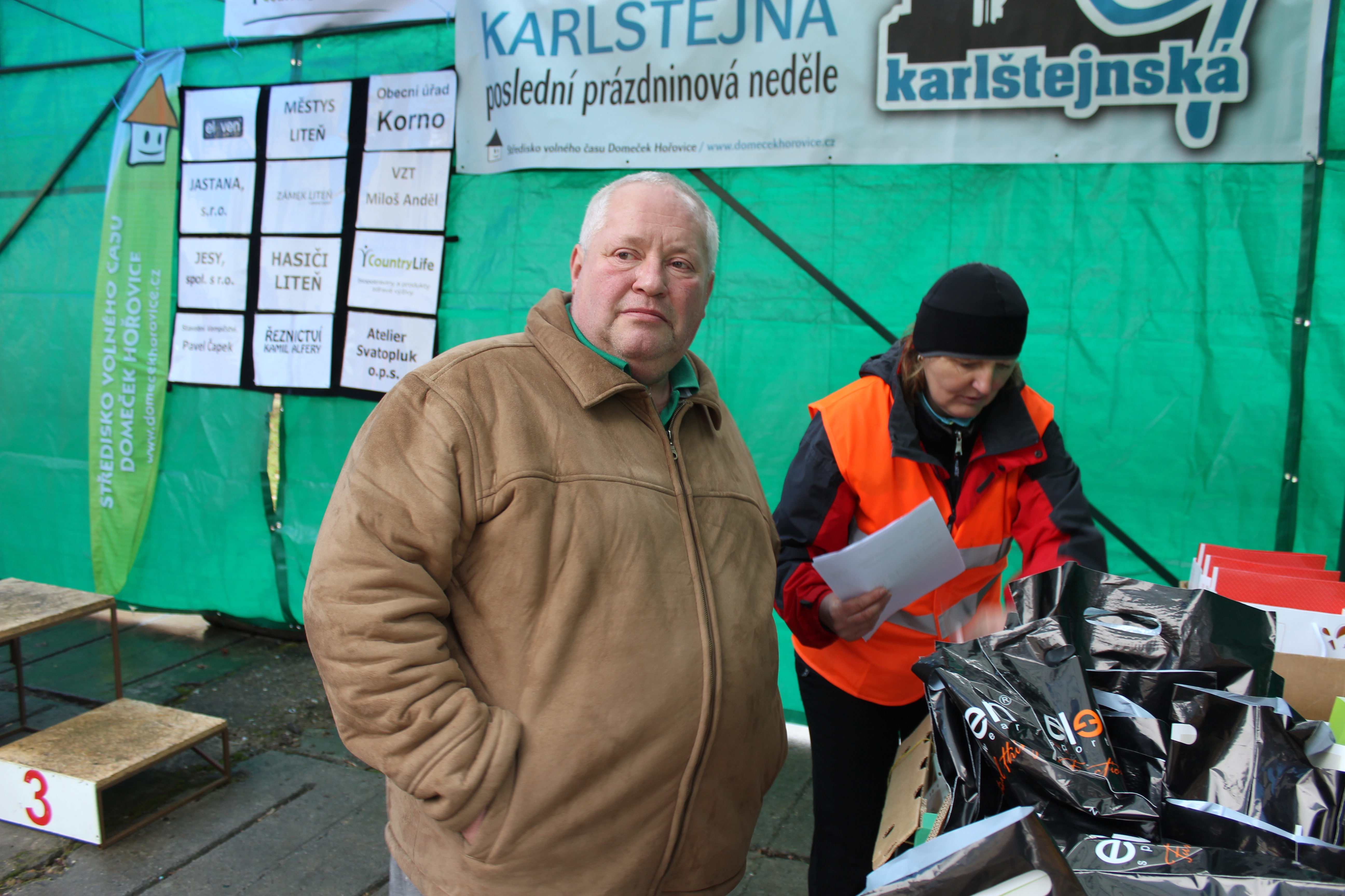 Zimní běh Litní 2015 (organizers)